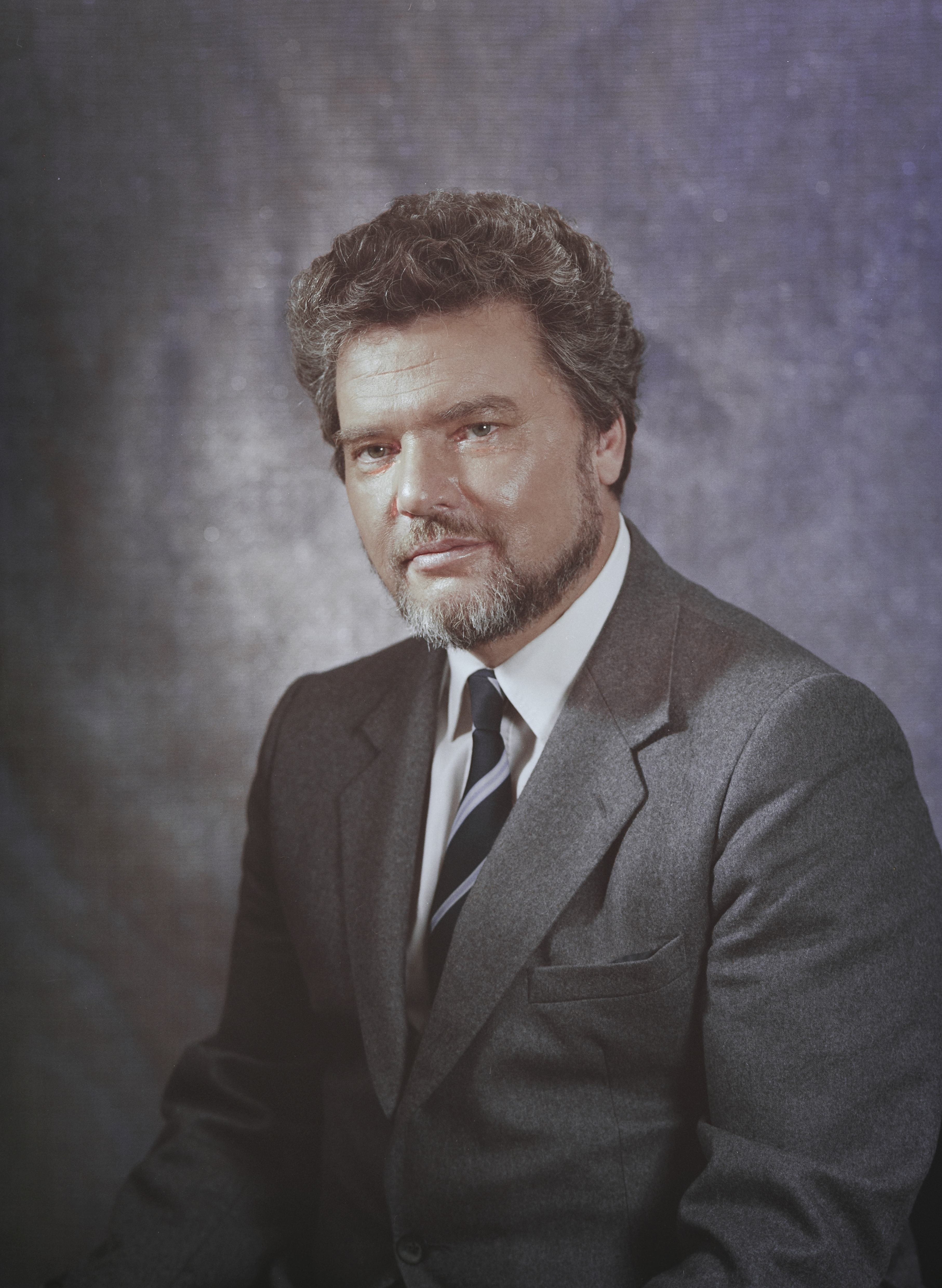 Photograph of the Finnish writer and publisher Kai Vakkuri (1934–2015).